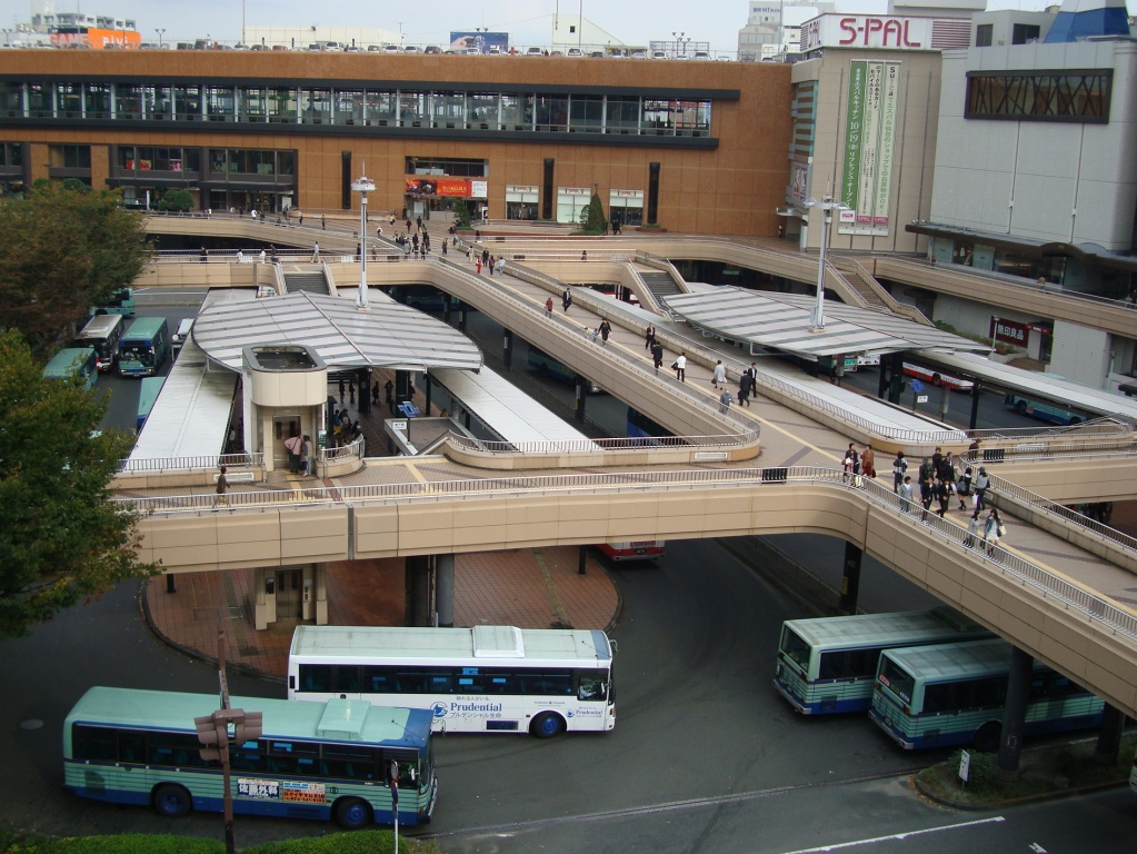 The Pedestrian-Deck, or pedestrian walkways, of Sendai Station, Japan